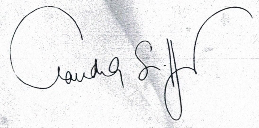 Claudia Schiffer signature